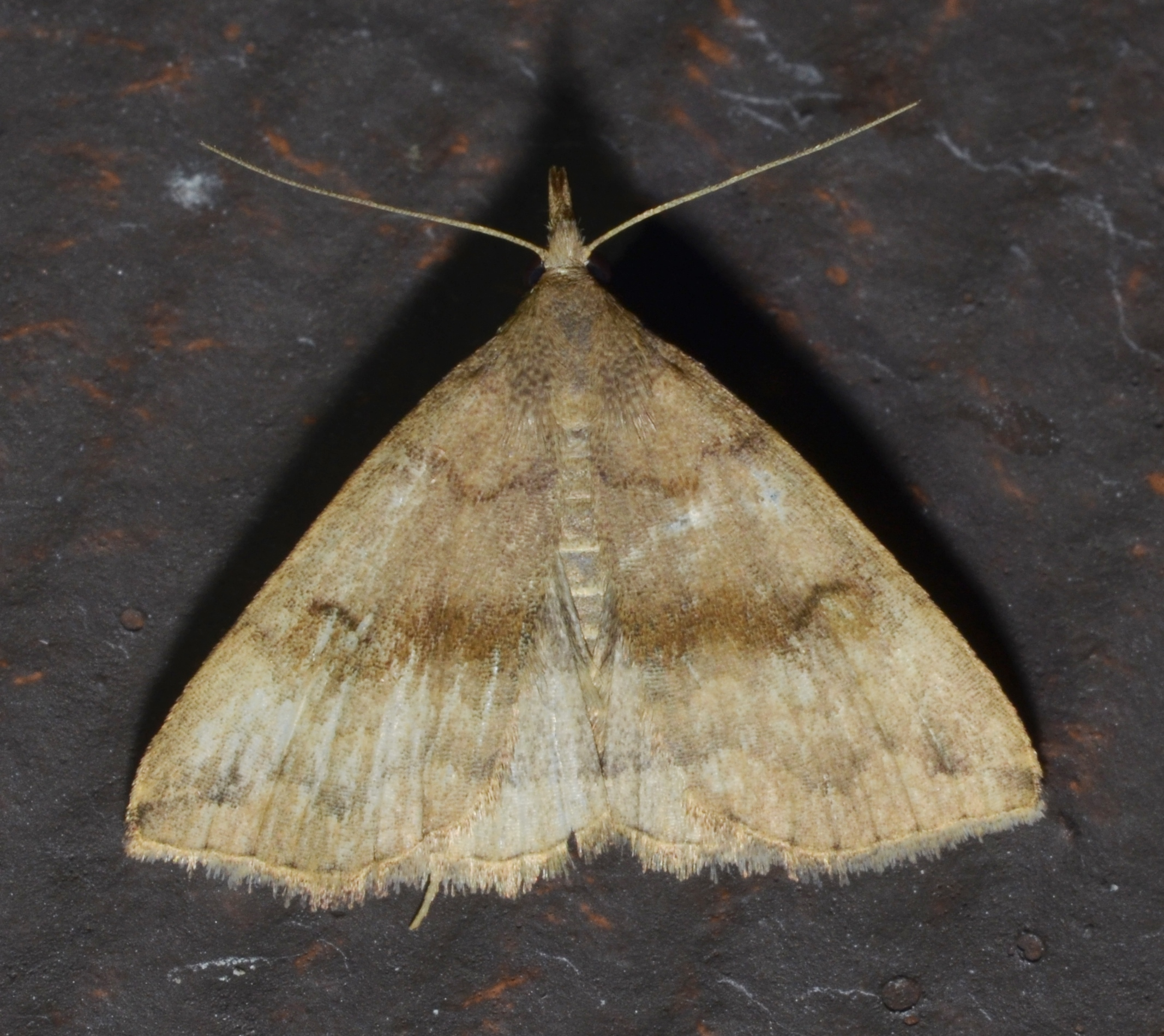 Cuivre River State Park 7/18/15